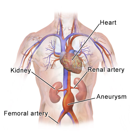 Abdominal Aortic Aneurysm Location. Animation in the reference.[1]